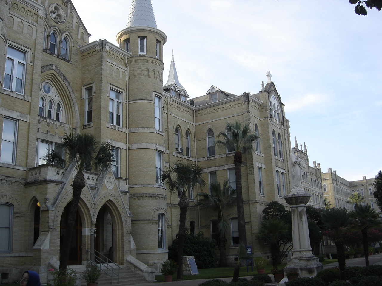 Our Lady of the Lake University, Texas.